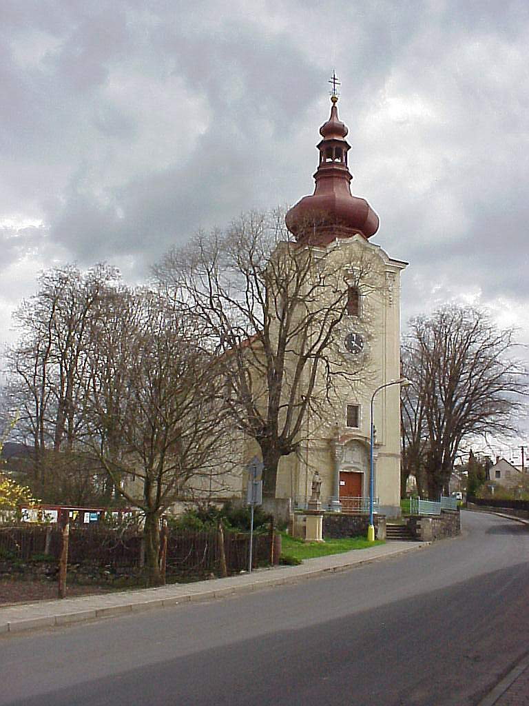 church in Řehlovice